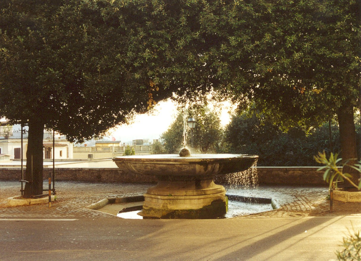 Fountain outside the Villa Medici on the Pincian Hill in Rome. View painted by Corot and other artists but it used to be possible to see the dome of St Peters in the distance, now obscured by trees.